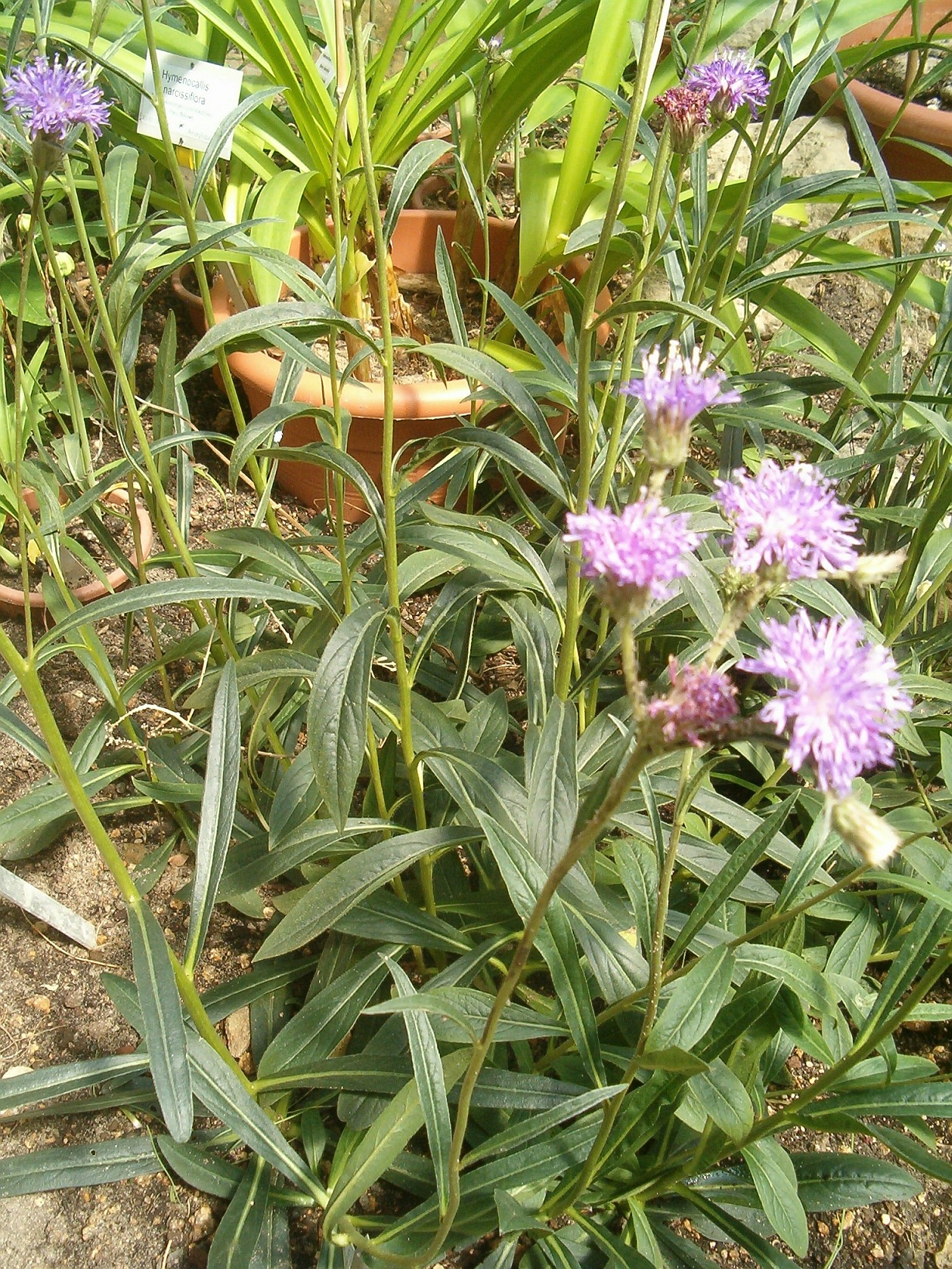 At Botanical Gardens Berlin-Dahlem Species Chrysolaena flexuosa Synonym Veronica flexuosa